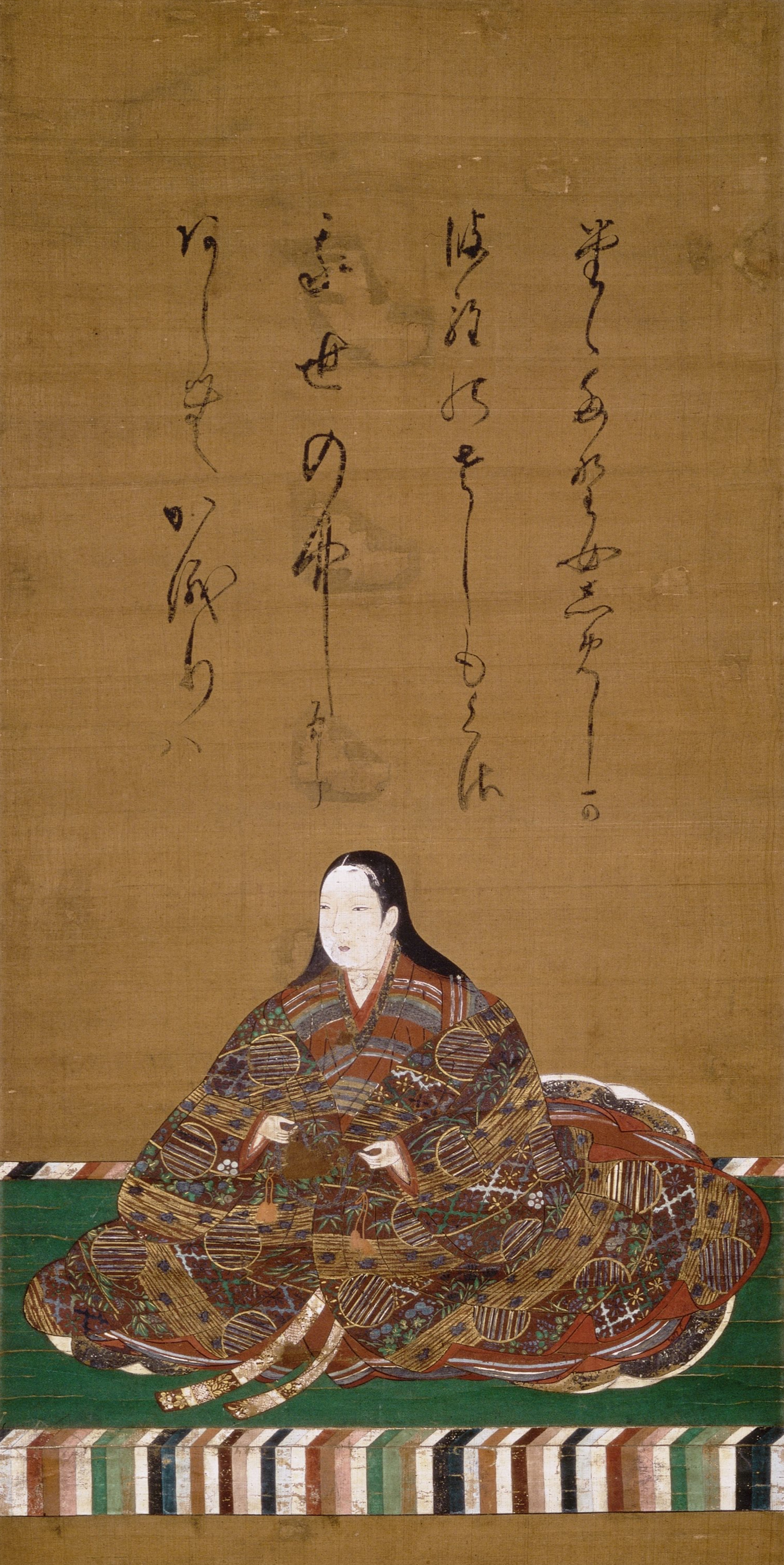 Lady Yodo-dono (Chacha) (1569?–1615)